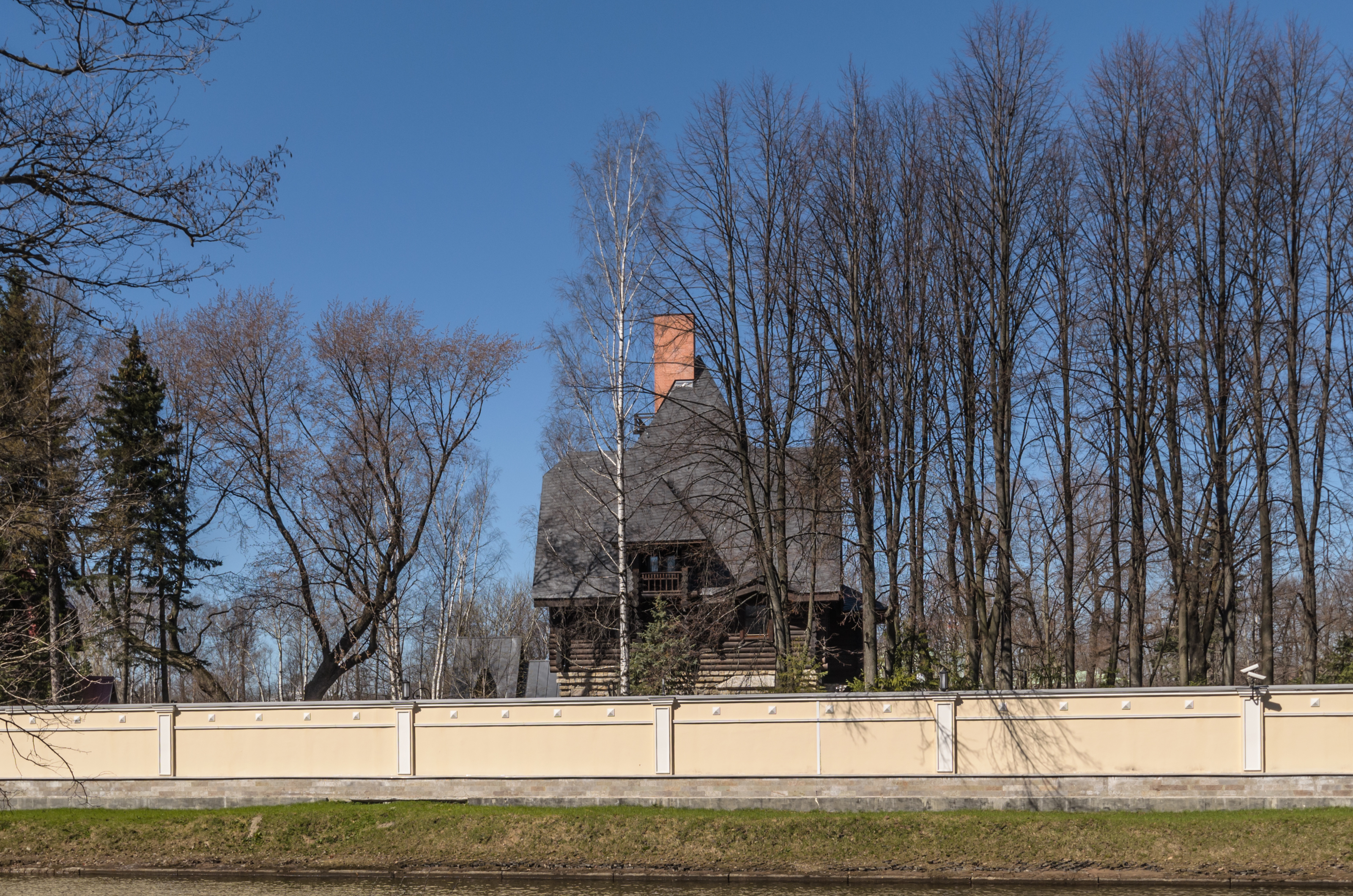 Robert Friedrich Meltzer house on Kamenny Island (Polevaya Alley) in Saint Petersburg